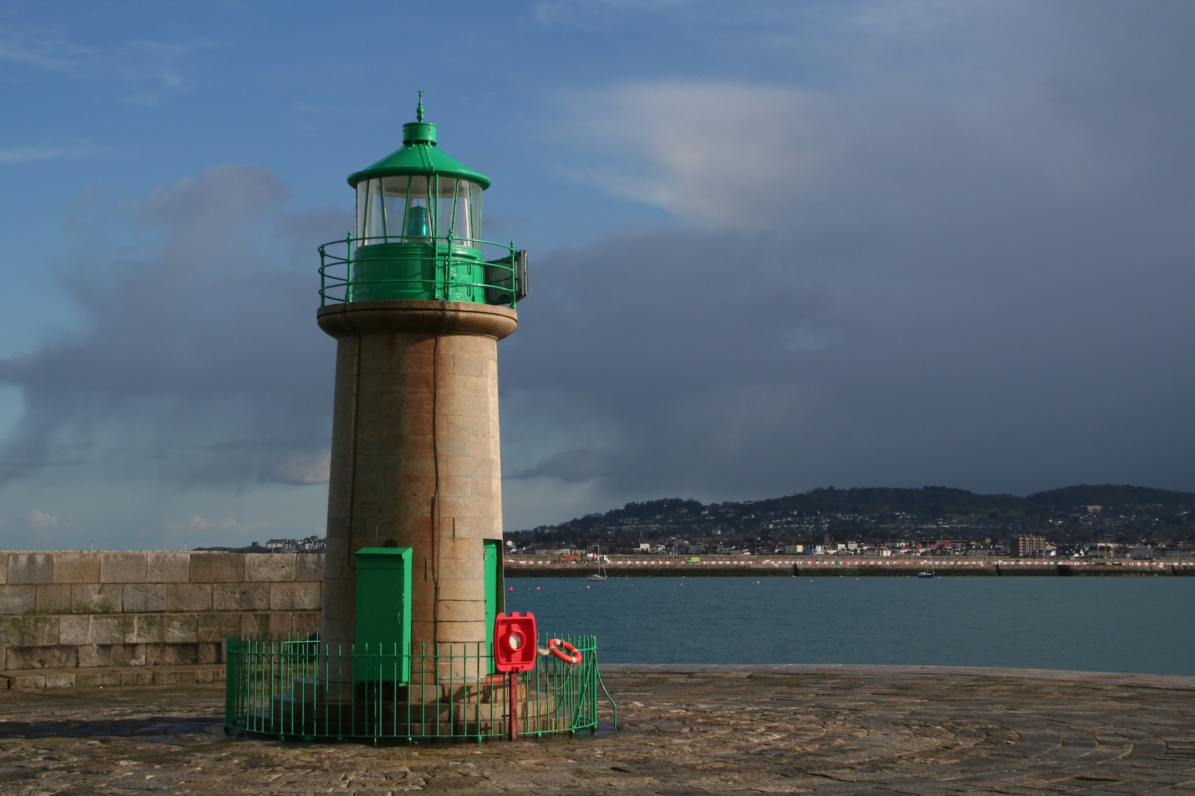 Lighthouse in Dun Loaghaire, Dublin, Ireland